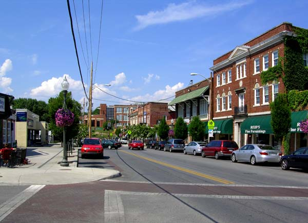 Portion of the Grandin Road Commercial Historic District listed on the National Register of Historic Places in Roanoke, VA, USA